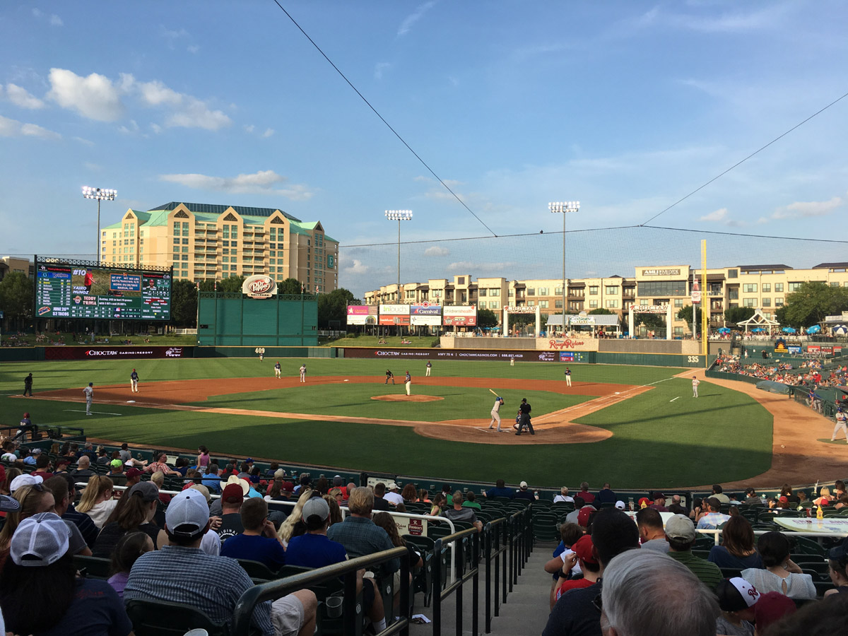 From behind home plate, the Embassy Suites where visiting teams stay is visible. The RoughRiders are playing against the Midland RockHounds in this image.